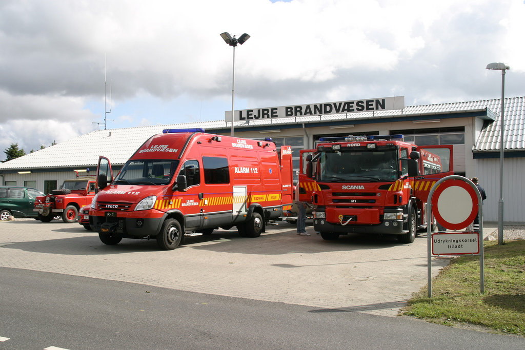 Fire Department of Lejre, station North